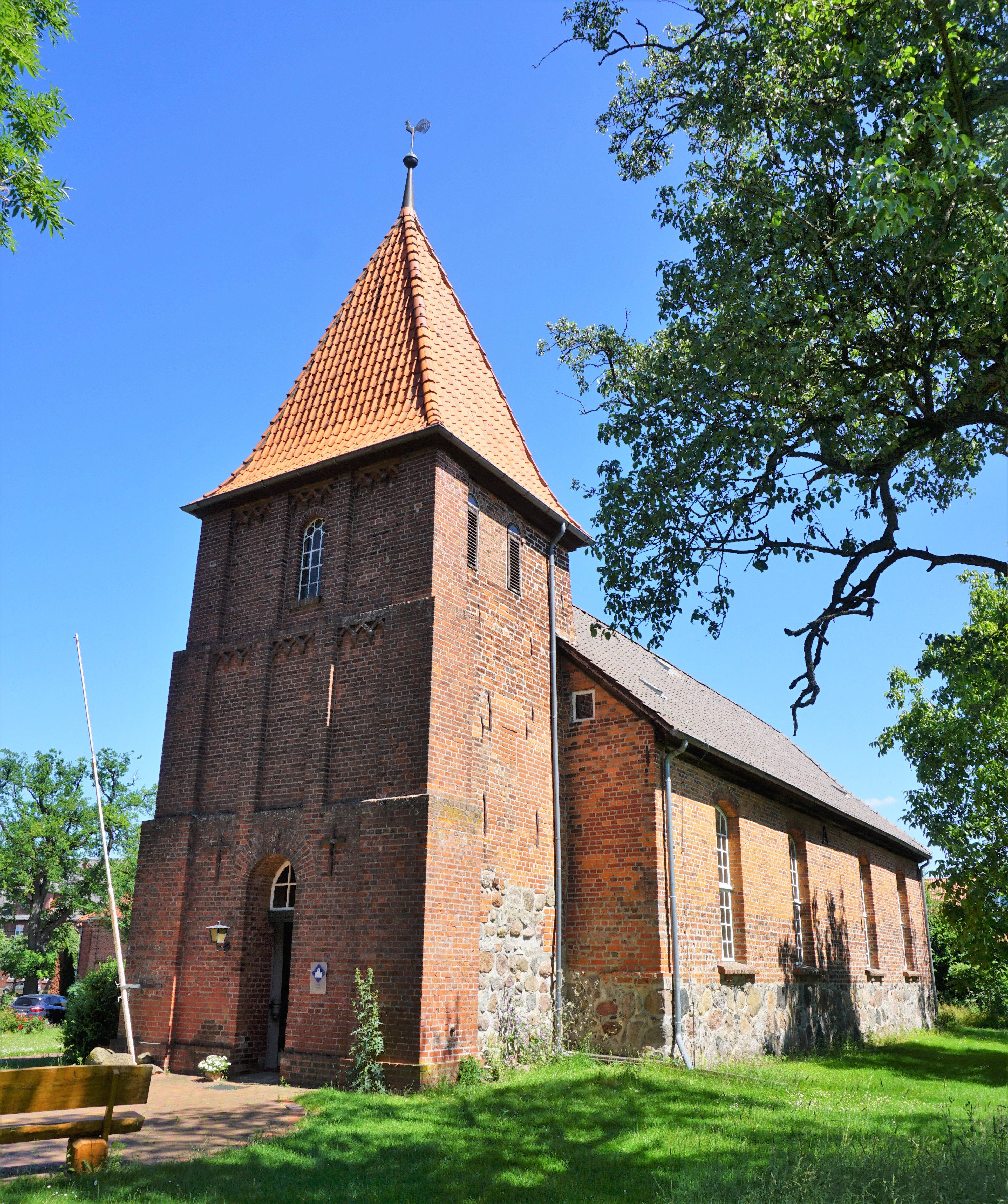 View from southwest to the Saint Vitus Church in Reinstorf, district Lüneburg.